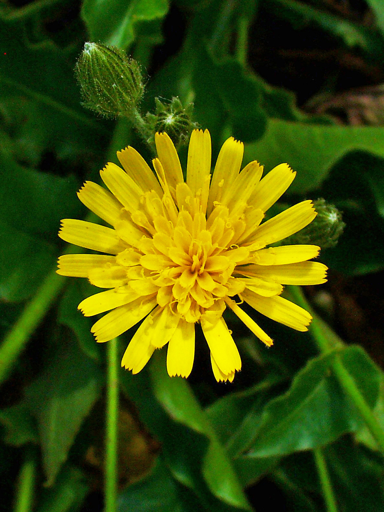 Hieracium amplexicaule, Asteraceae, Sticky Hawkweed, inflorescence; Botanical Garden KIT, Karlsruhe, Germany.